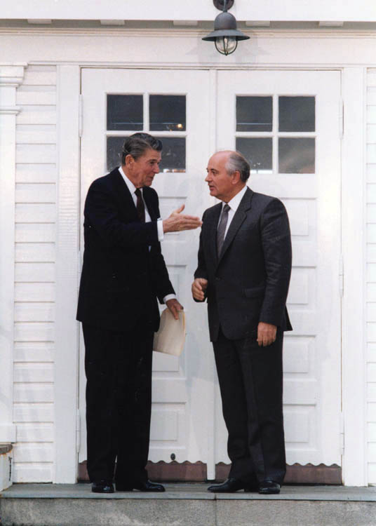 President Reagan meets Soviet General Secretary Gorbachev at Höfði House during the Reykjavik Summit. Iceland, 1986.